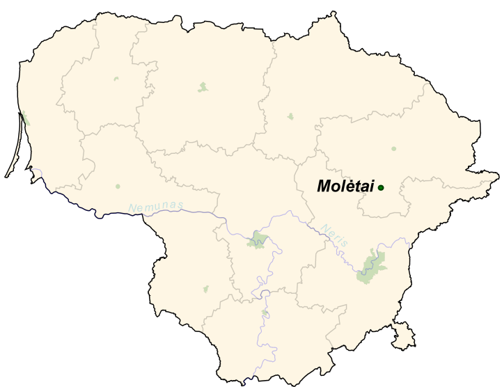 Molėtai on the map of Lithuania